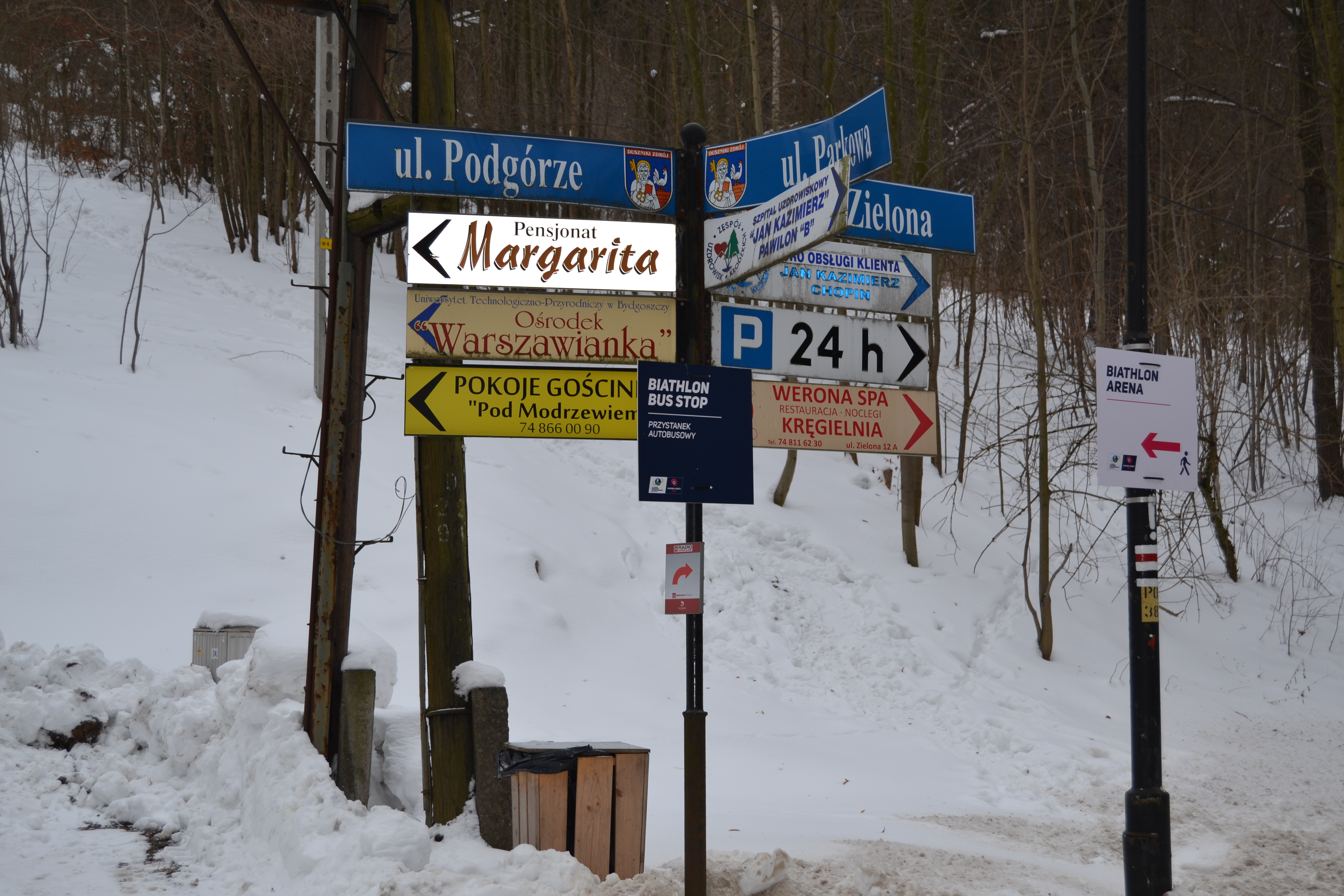 Open European Championships Biathlon 2017.